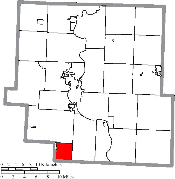 Map of the municipal and township boundaries of Muskingum County, Ohio, United States, as of the 2000 census, with the location of Clay Township highlighted. Township borders are shown only in unincorporated areas in order to differentiate incorporated and unincorporated areas more clearly.